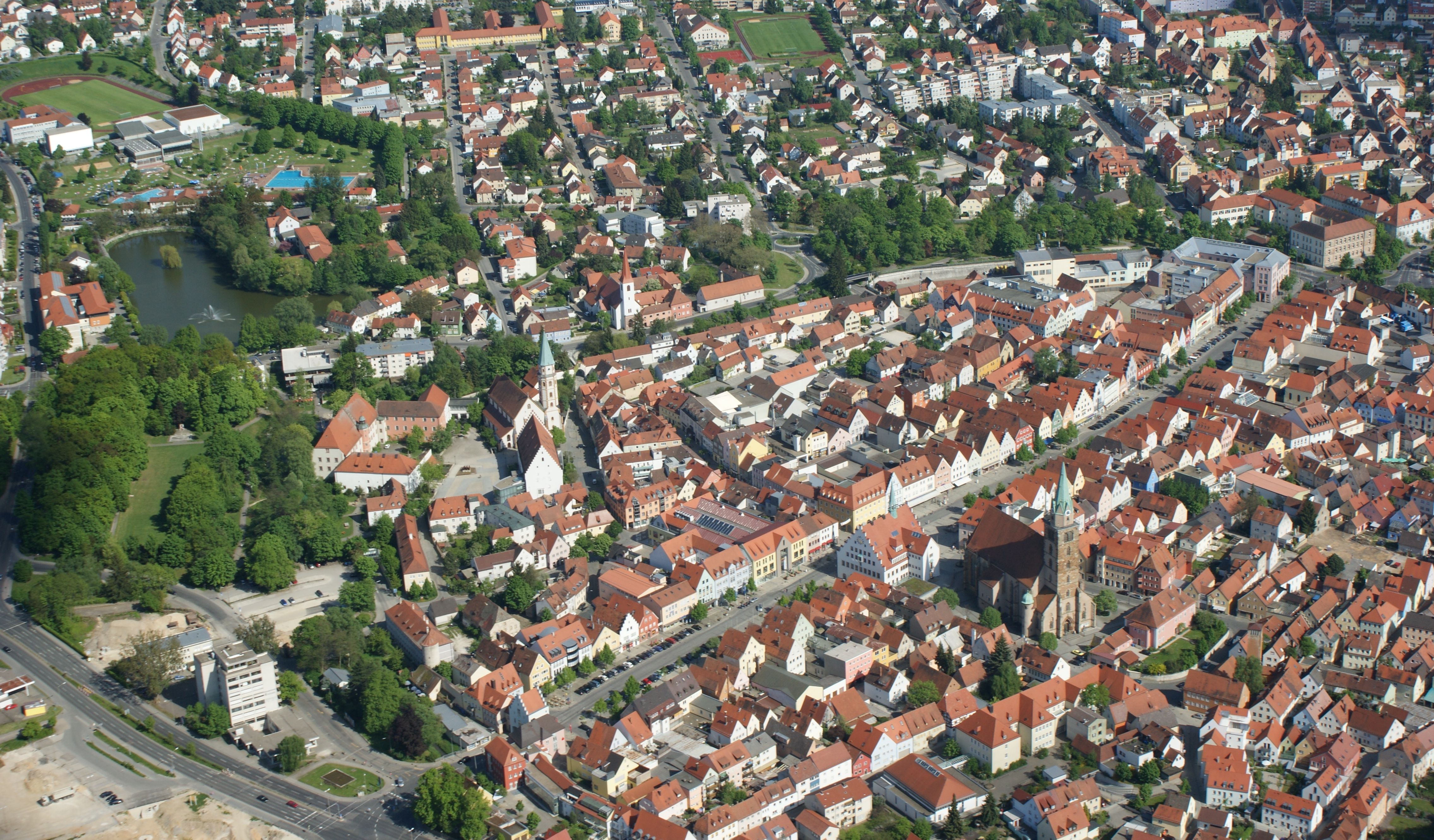 Neumarkt in der Oberpfalz from above